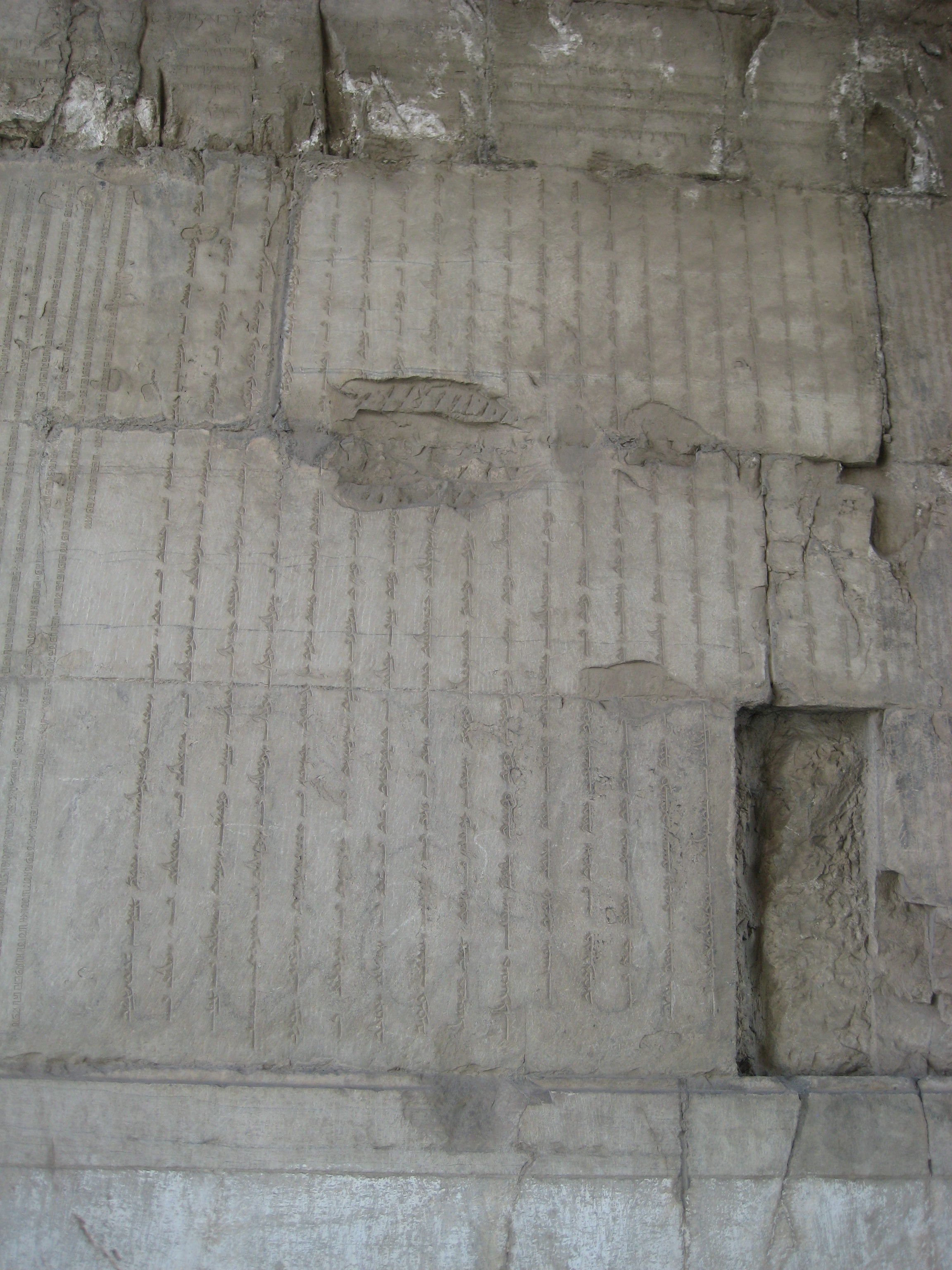 Uyghur inscription on the west interior wall of the Cloud Platform at Juyongguan.